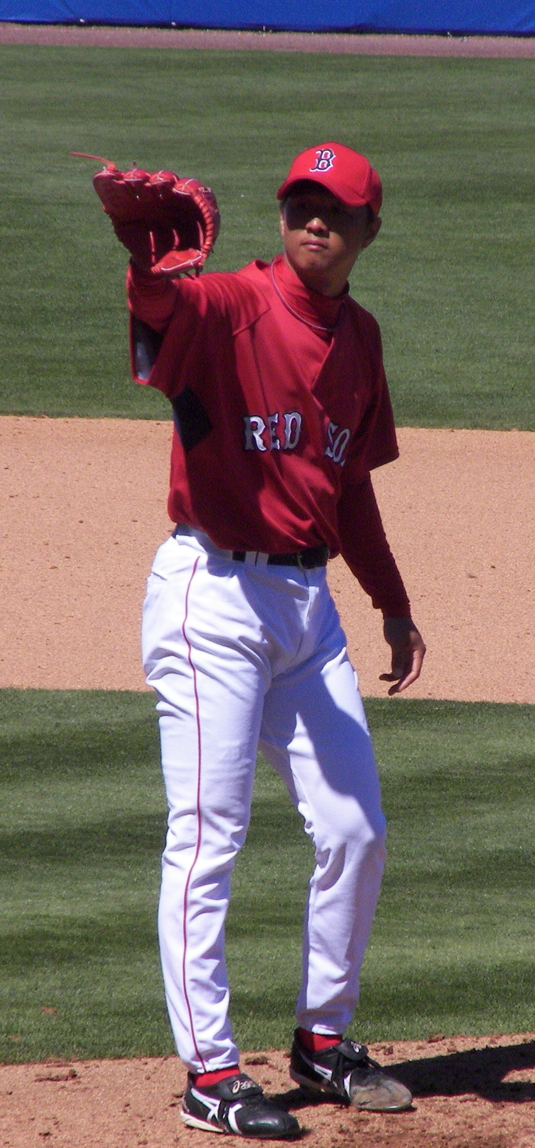 Boston Red Sox pitcher Hideki Okajima pitching during a Red Sox/Los Angeles Dodgers spring training game at City of Palms Park in Fort Myers, Florida.